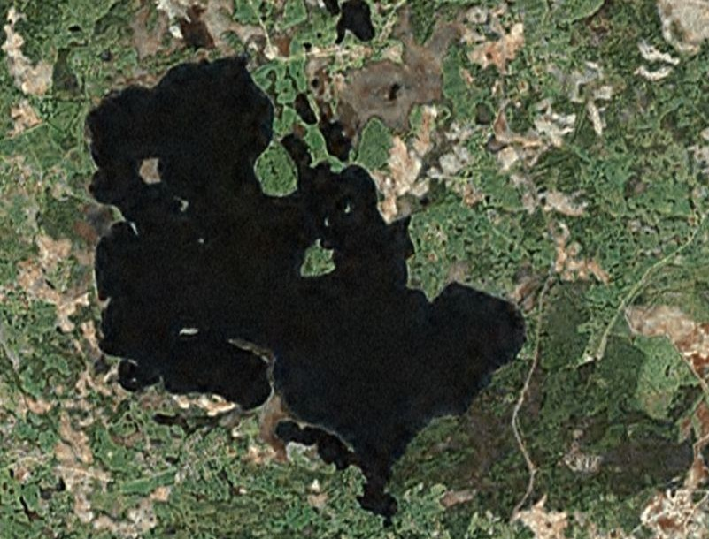 Miadziel Lake, Space View